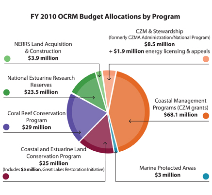 "NOAA’s Office of Ocean and Coastal Resource Management (OCRM) funding supports ocean and coastal management through a variety of programs. "